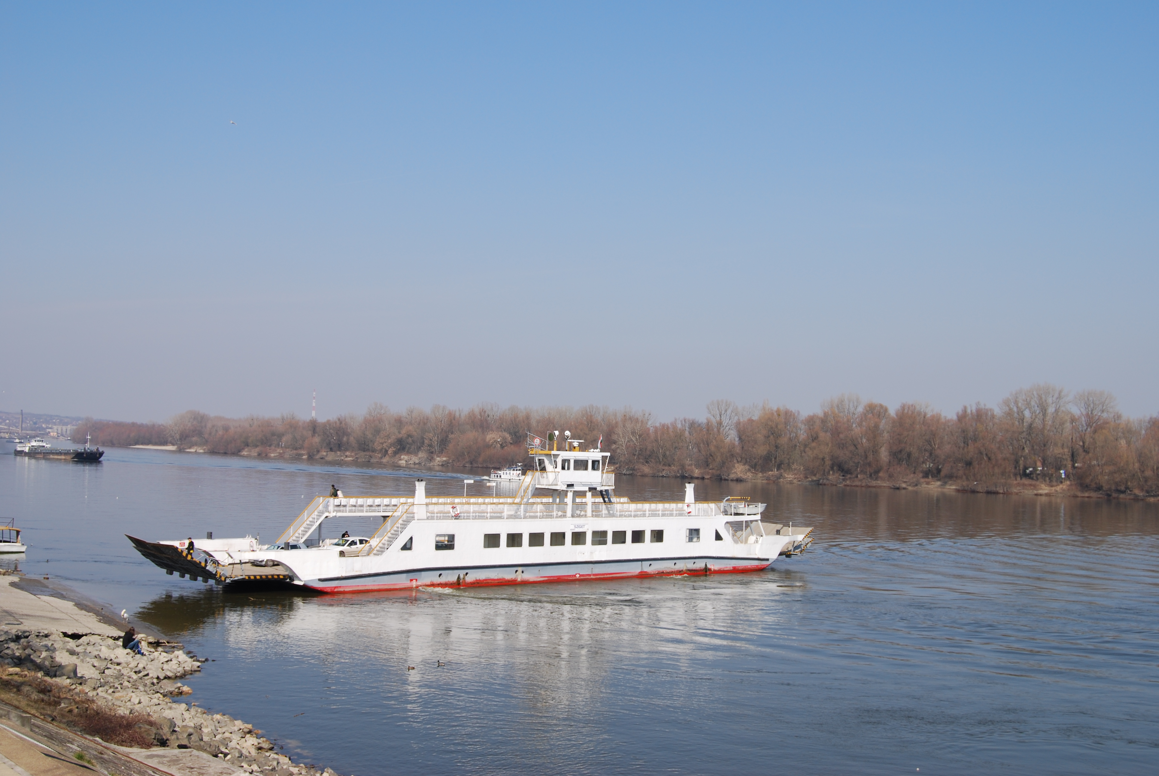 Ferry over Danube in Mohács city, Hungary